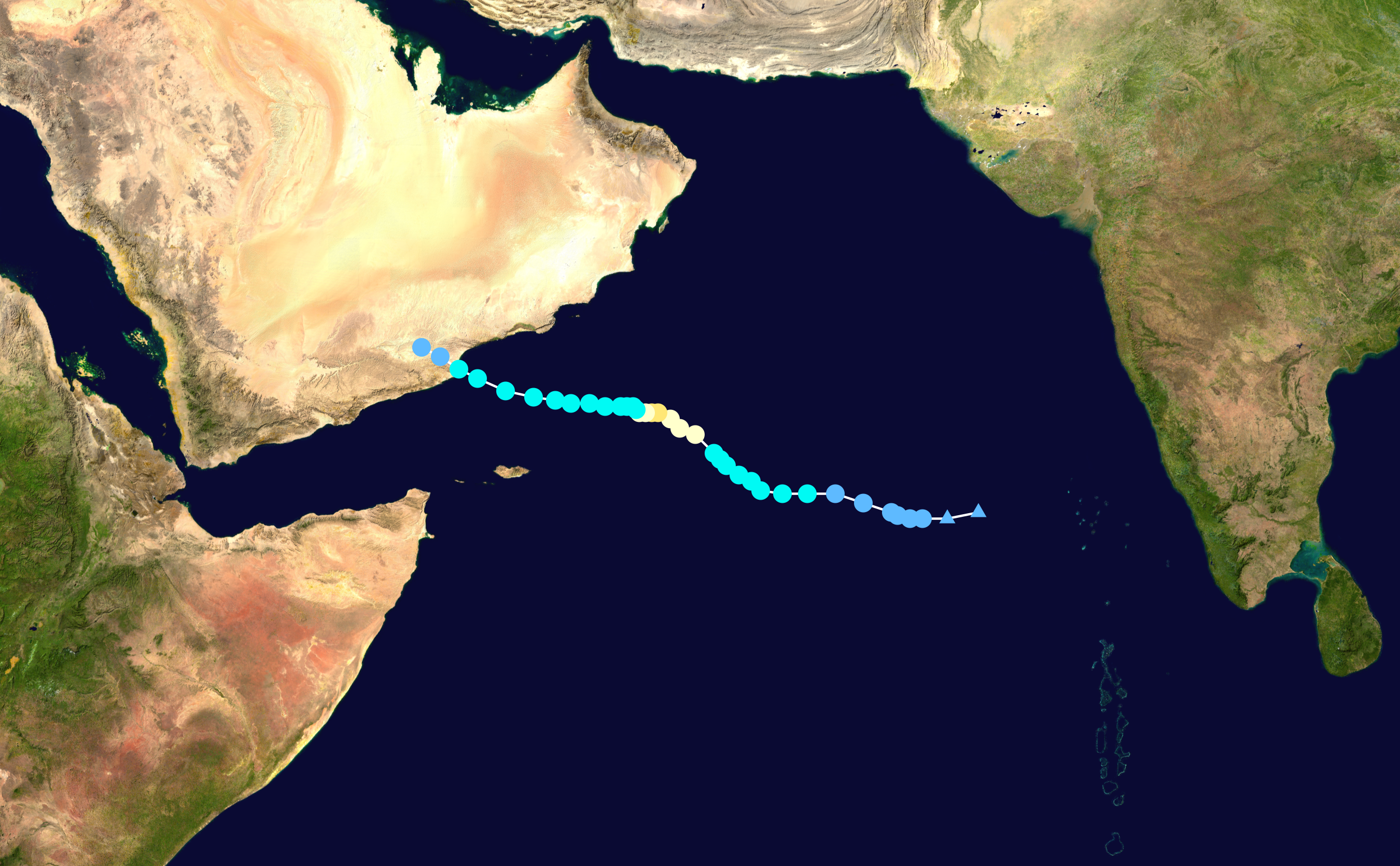 Track map of Very Severe Cyclonic Storm Luban of the 2018 North Indian Ocean cyclone season. The points show the location of the storm at 6-hour intervals. The colour represents the storm's maximum sustained wind speeds as classified in the Saffir–Simpson scale (see below), and the shape of the data points represent the nature of the storm, according to the legend below. Saffir–Simpson scale Tropical depression≤38 mph≤62 km/h Category 3111–129 mph178–208 km/h Tropical storm39–73 mph63–118 km/h Category 4130–156 mph209–251 km/h Category 174–95 mph119–153 km/h Category 5≥157 mph≥252 km/h Category 296–110 mph154–177 km/h Unknown Storm type Tropical cyclone Subtropical cyclone Extratropical cyclone / Remnant low / Tropical disturbance / Monsoon depression